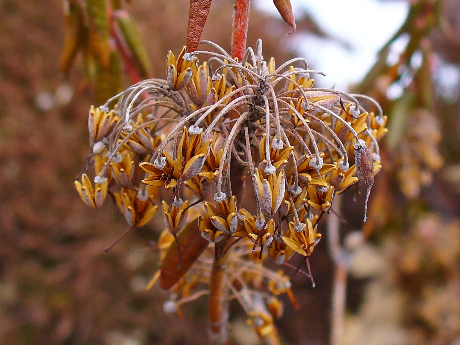 Rhododendron tomentosum, Ericaceae, Marsh Labrador Tea, Northern Labrador Tea, Wild Rosemary, infrutescence. Botanical Garden KIT, Karlsruhe, Germany.